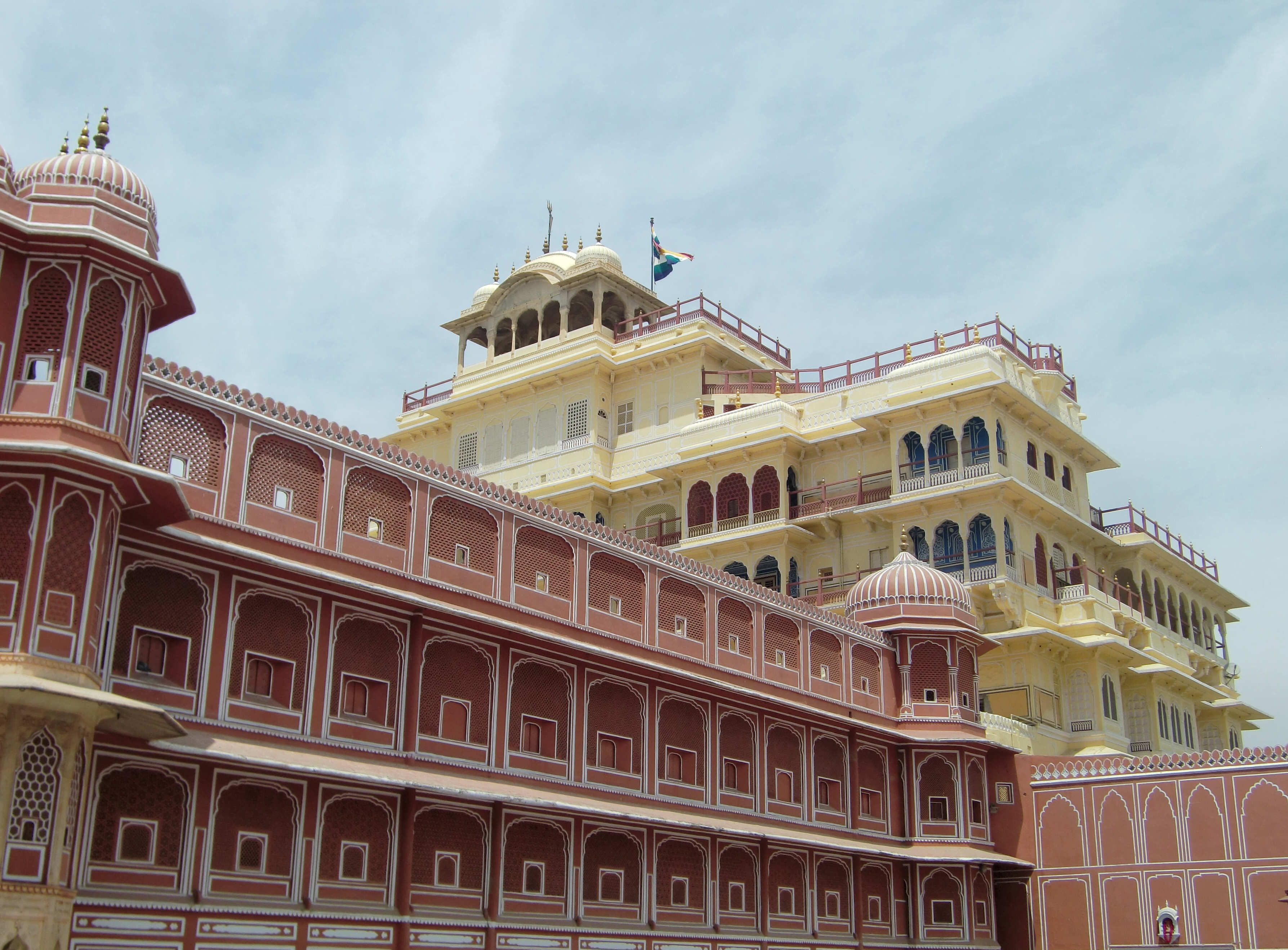 Chandra Mahal (Yellow building), City Palace of Jaipur